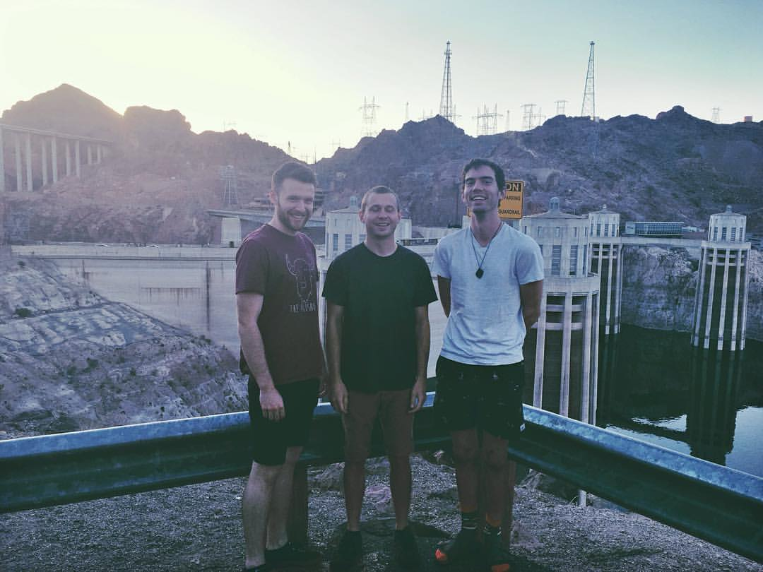 our first tour with dookie god i miss him